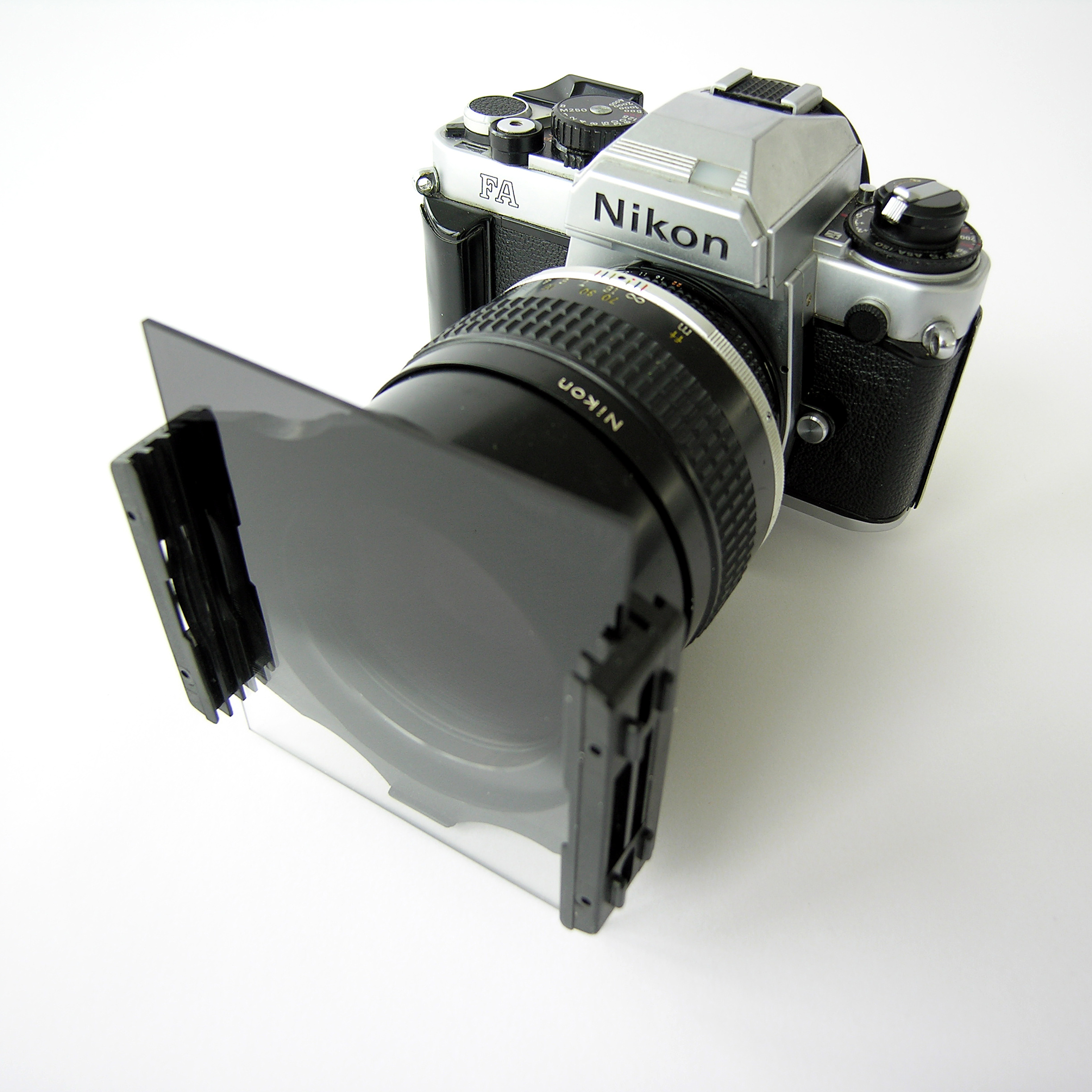 Cokin filter system for photography: Nikon FA with lens Nikkor 105/1.8 and P-Series adapter ring, filter holder and gradual filter P121 G2